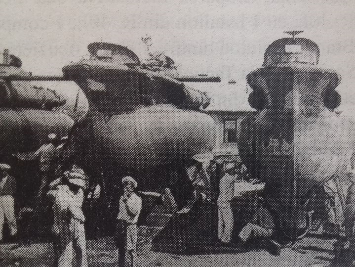 Italian midget submarines of the CB-class, surrendered to Romanian forces in Constanța in late 1943